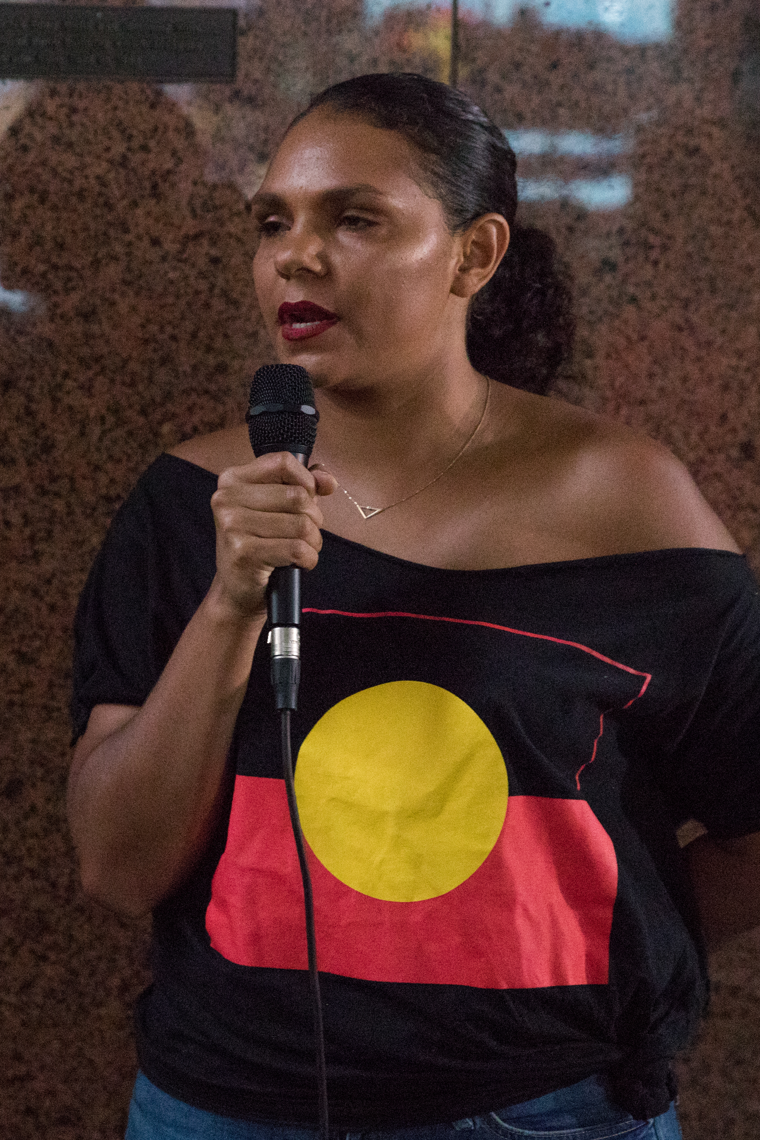 Rarriwuy Hick speaks at a rally in Martin Place, Sydney, Australia.